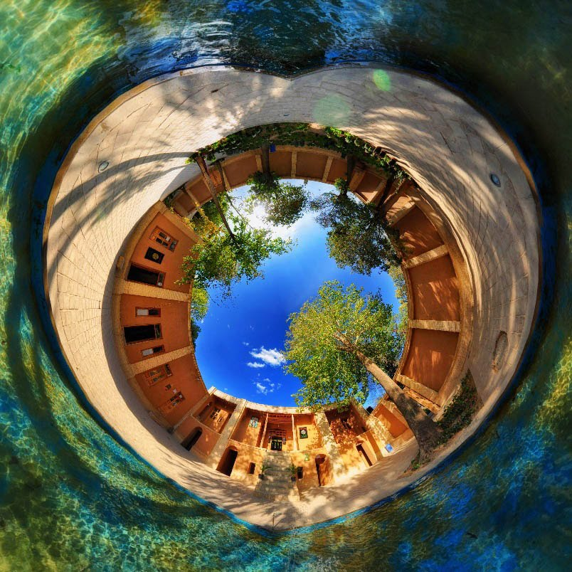 Panorama of Historic house of Seyyed Ruhollah Khomeini's in Khomein, Markazi Province, Iran.